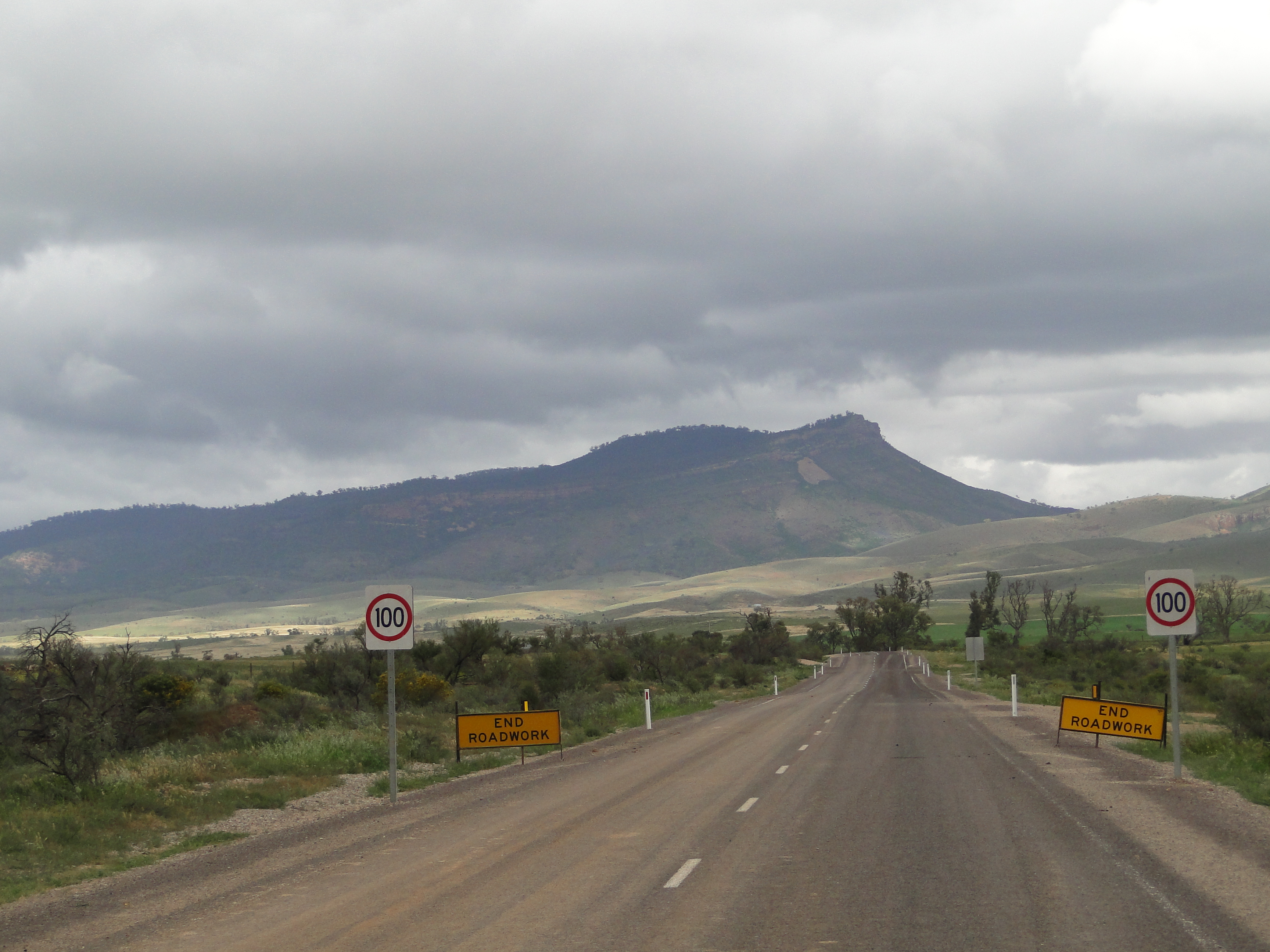 Long distance view of The Dutchmans Stern, Flinders Ranges, South Australia